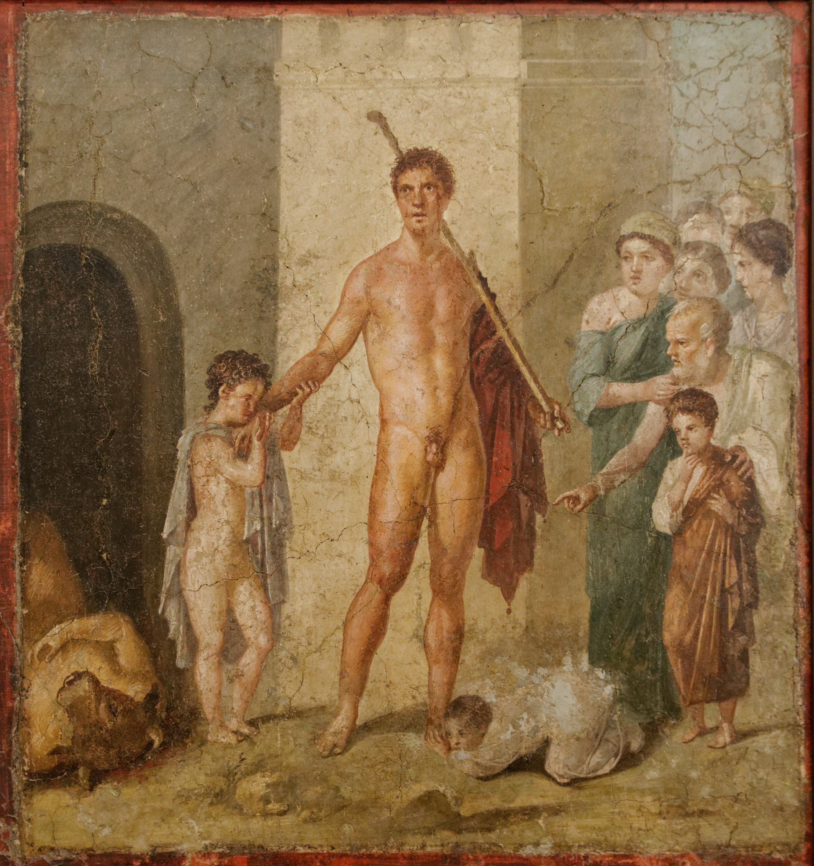 Theseus honoured by the Athenians after he killed the Minotaur.